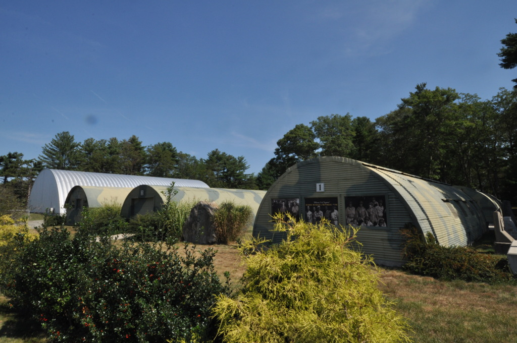 Quonset huts at the Seabee Memorial Museum that were formerly part of Camp Endicott in Davisville, Rhode Island.